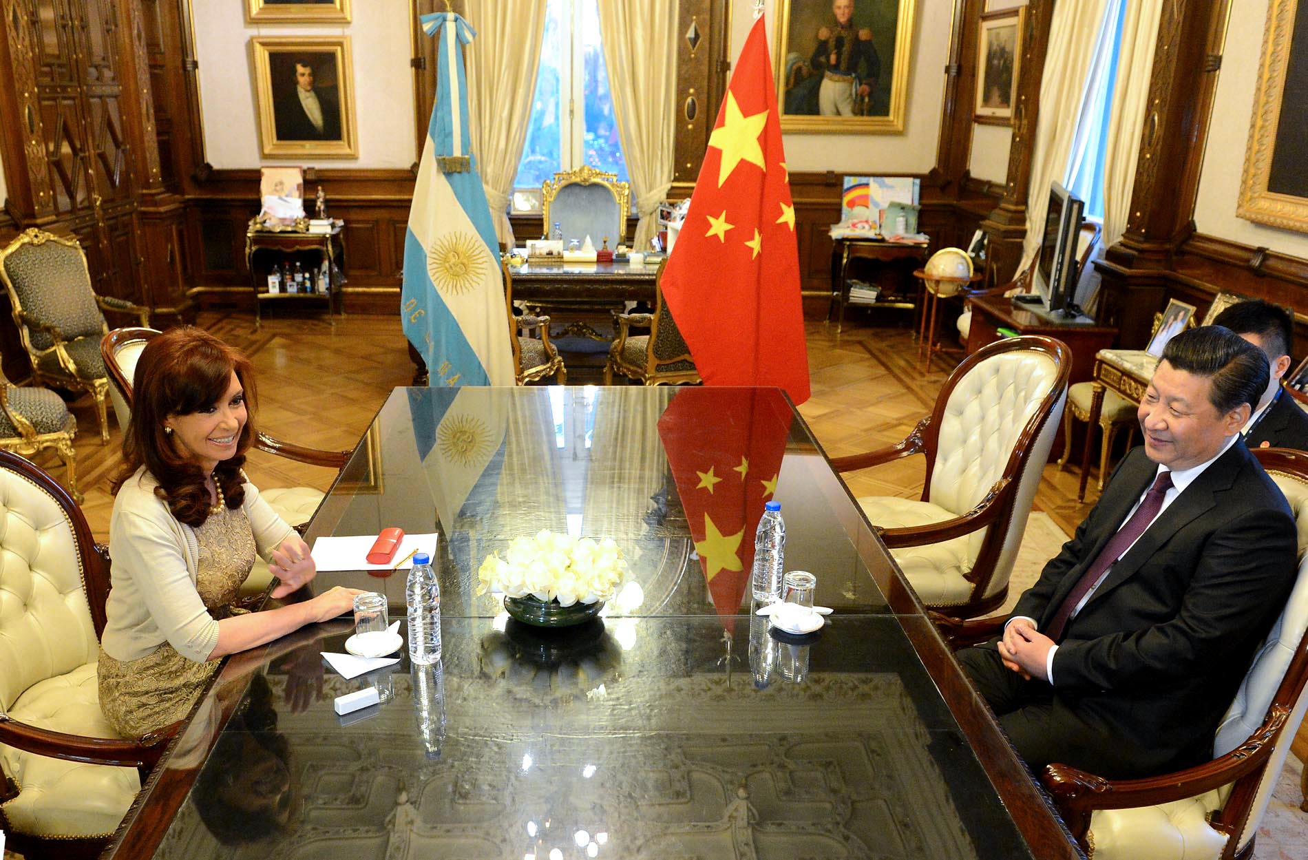 Cristina Fernández and Xi Jinping in Argentina. Xi first time in that country.